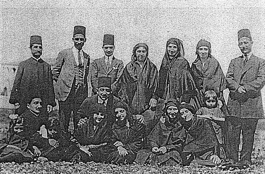 Standing (L to R): Majdeddin bin Moussa Irani, Mirza Jamil (Majdeddin’s younger brother), Salah Bahai, Alia Khanum, Laqa’iyya Khanum, Maryam (Majdeddin’s daughter), Amin Ullah Bahai. Bottom row (L to R): Mousa Bahai seated between Ismat and Iffat, Shua Ullah Behai crouching over Kamar and Sazij (all daughters of Badi Ullah); Samadiyya Khanum, Zaranguise (Maryam’s sister), unknown child.